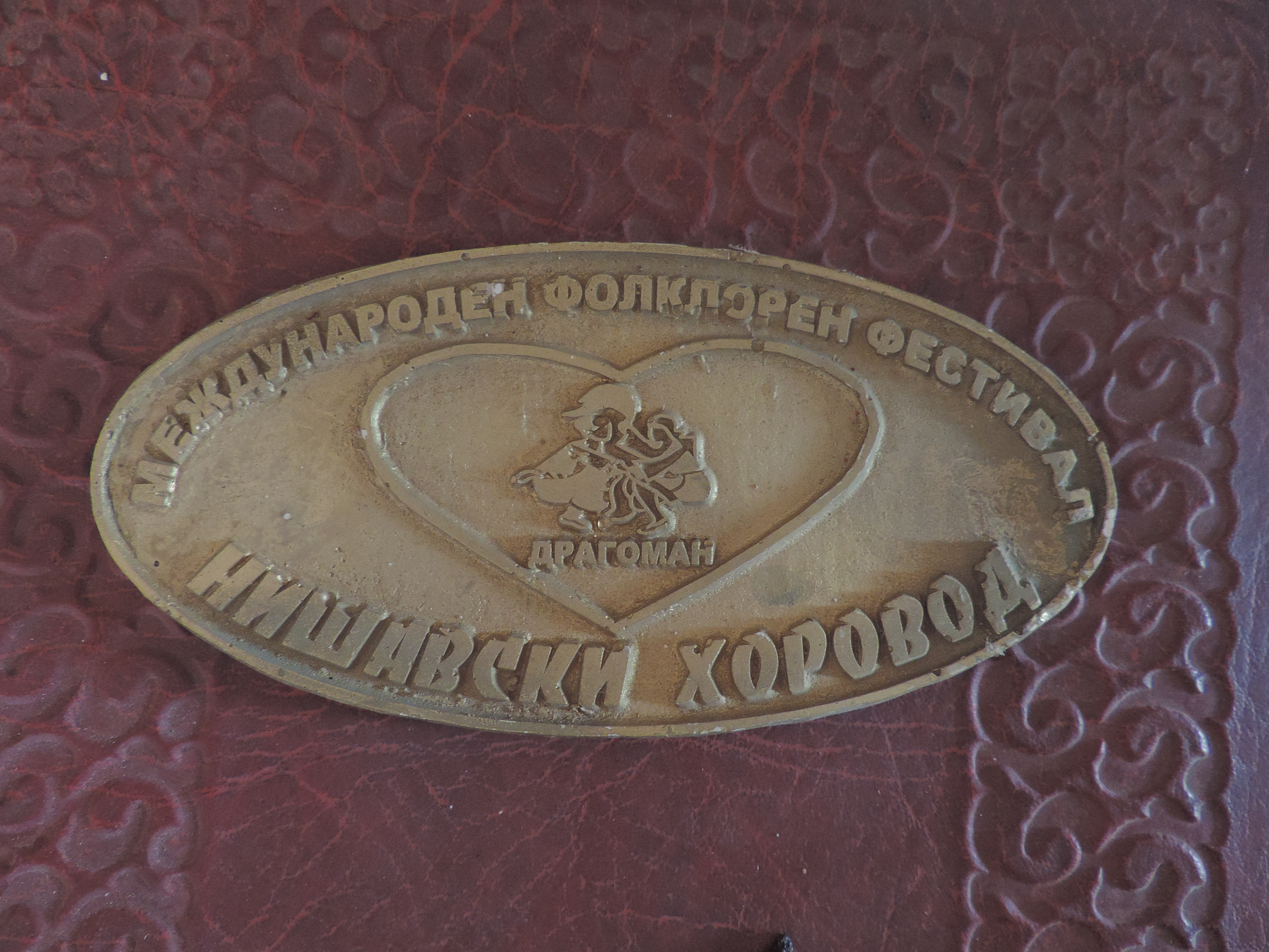 International Folk Festival "Nishavski horovod"